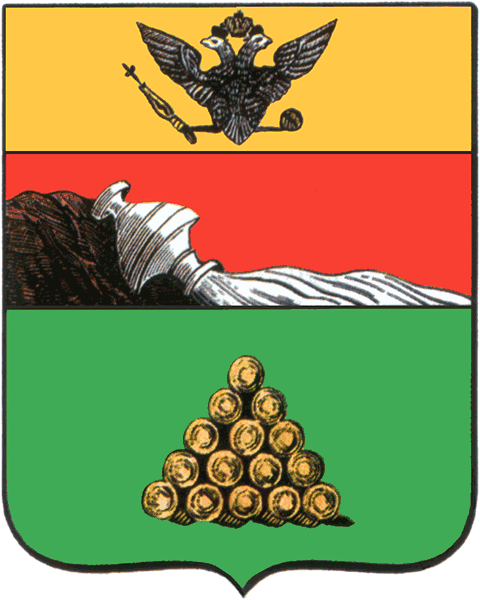 Coat of Arms of Valuyki (Belgorod Oblast, Voronezh Governorate before 1928) 1781.